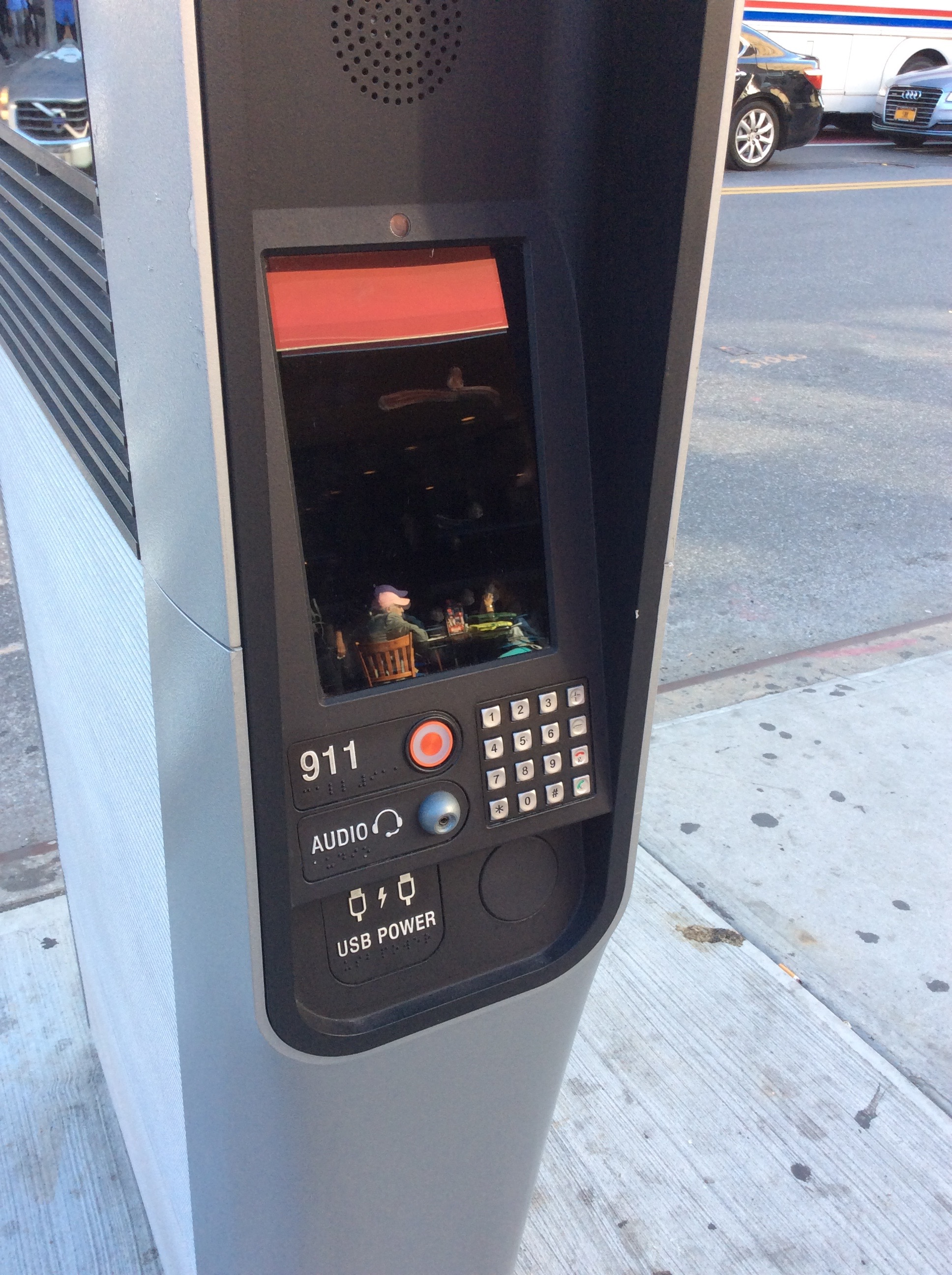 A LinkNYC kiosk in New York City with a malfunctioning tablet browser screen. The screen is not turned on, nor would pressing the keypad or buttons do anything.